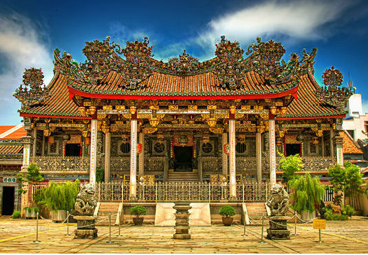 Leong San Tong Khoo Kongsi, or Khoo Kongsi Clan House in Georgetown, Penang